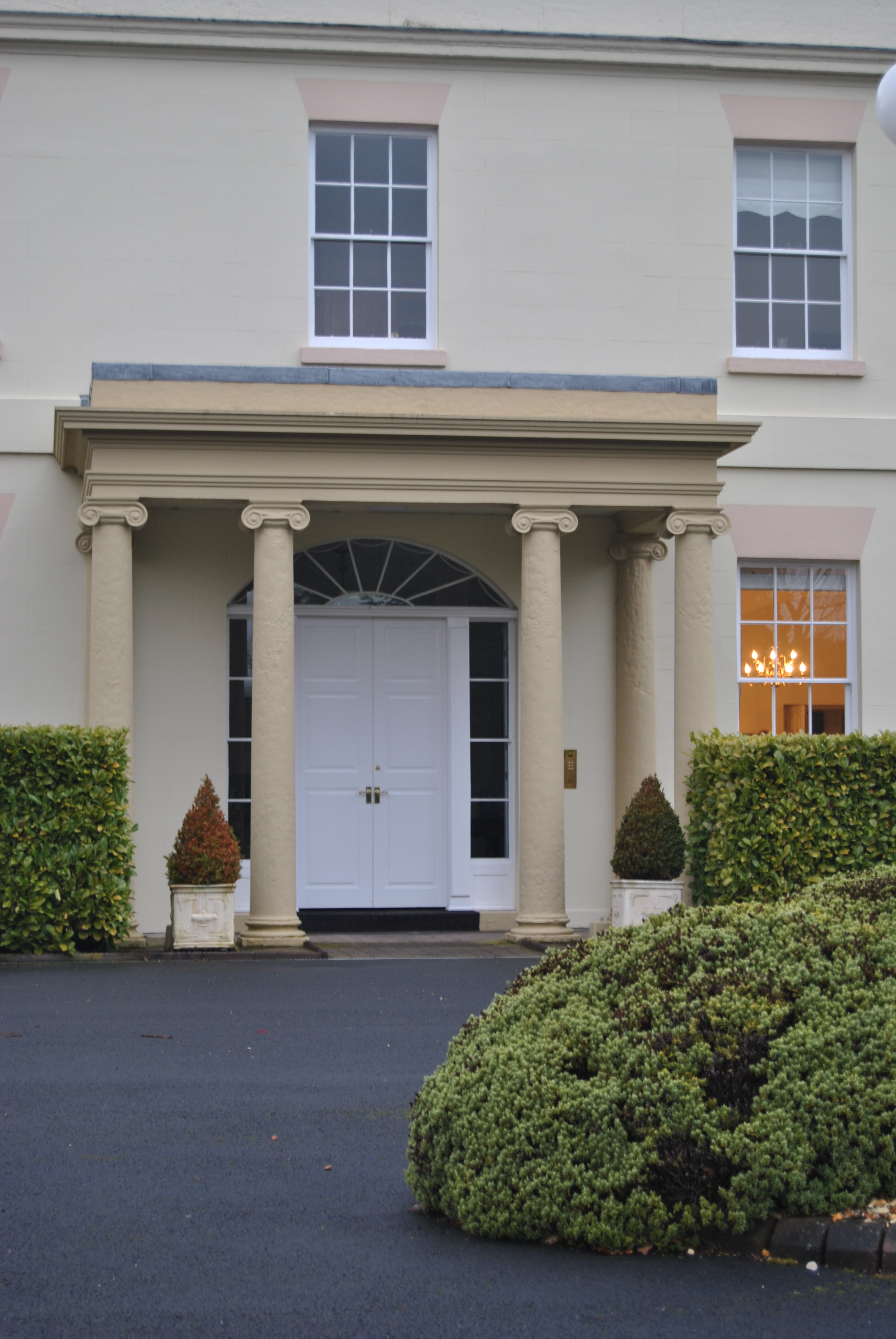 The Portico entrance to Rufford New Hall, taken 2010.